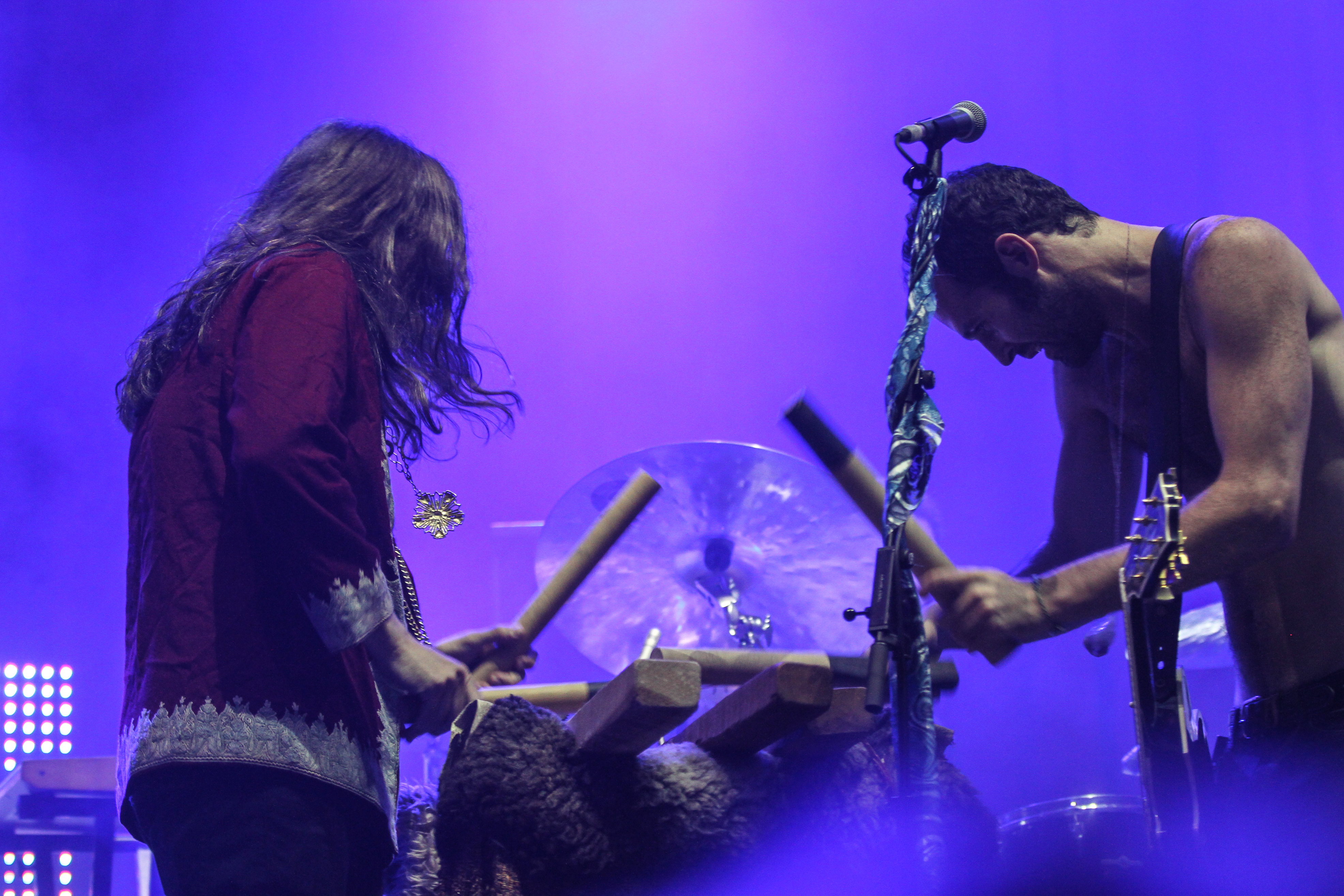 Crystal Fighters performing at Melt! Festival 2013